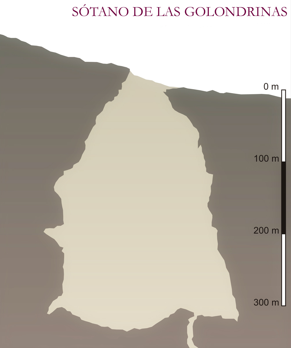 Crossection of Sotano de la Golondrina